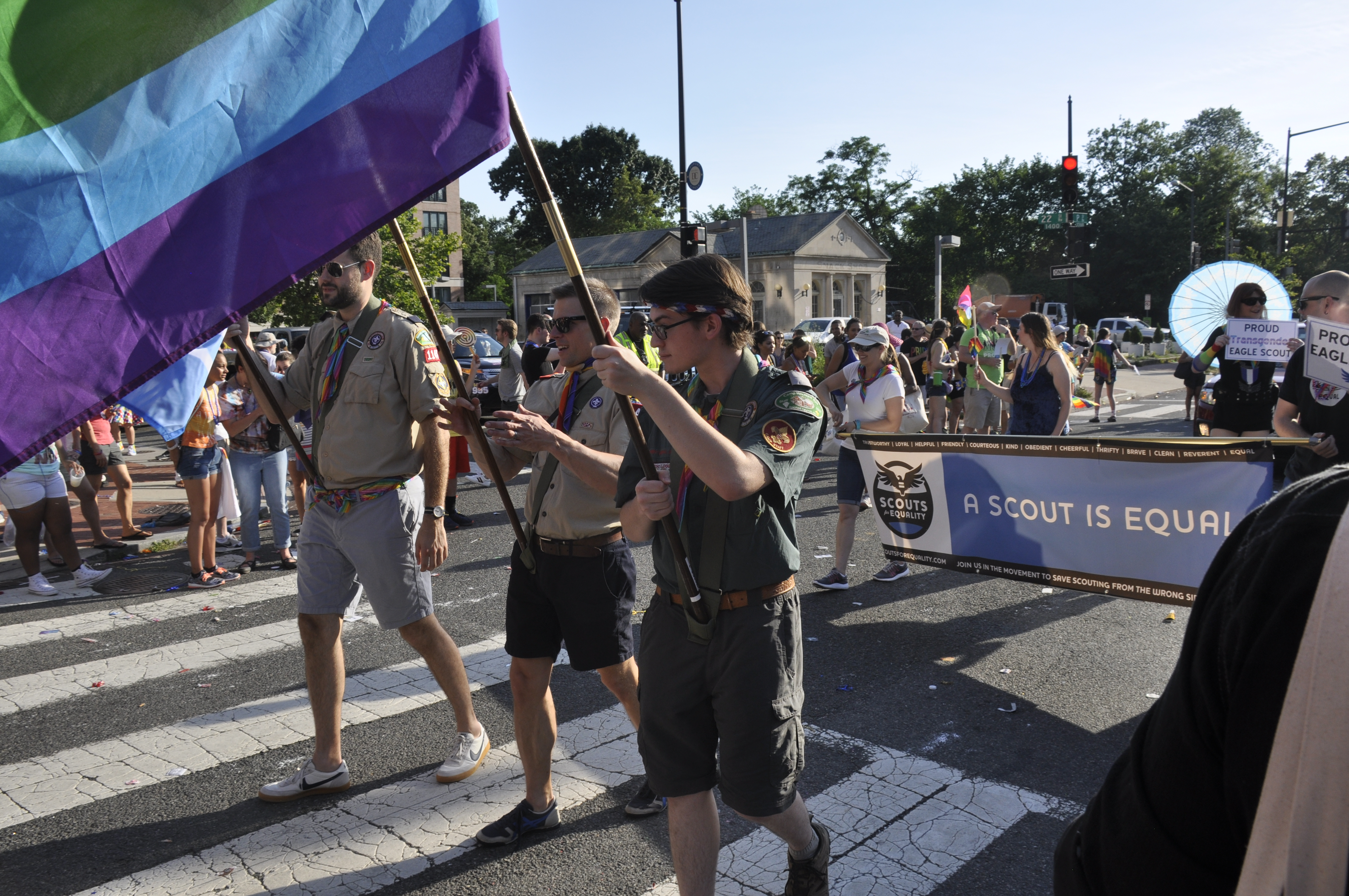 2017 Capital Pride at 22nd and P Streets NW in Washington, D.C.